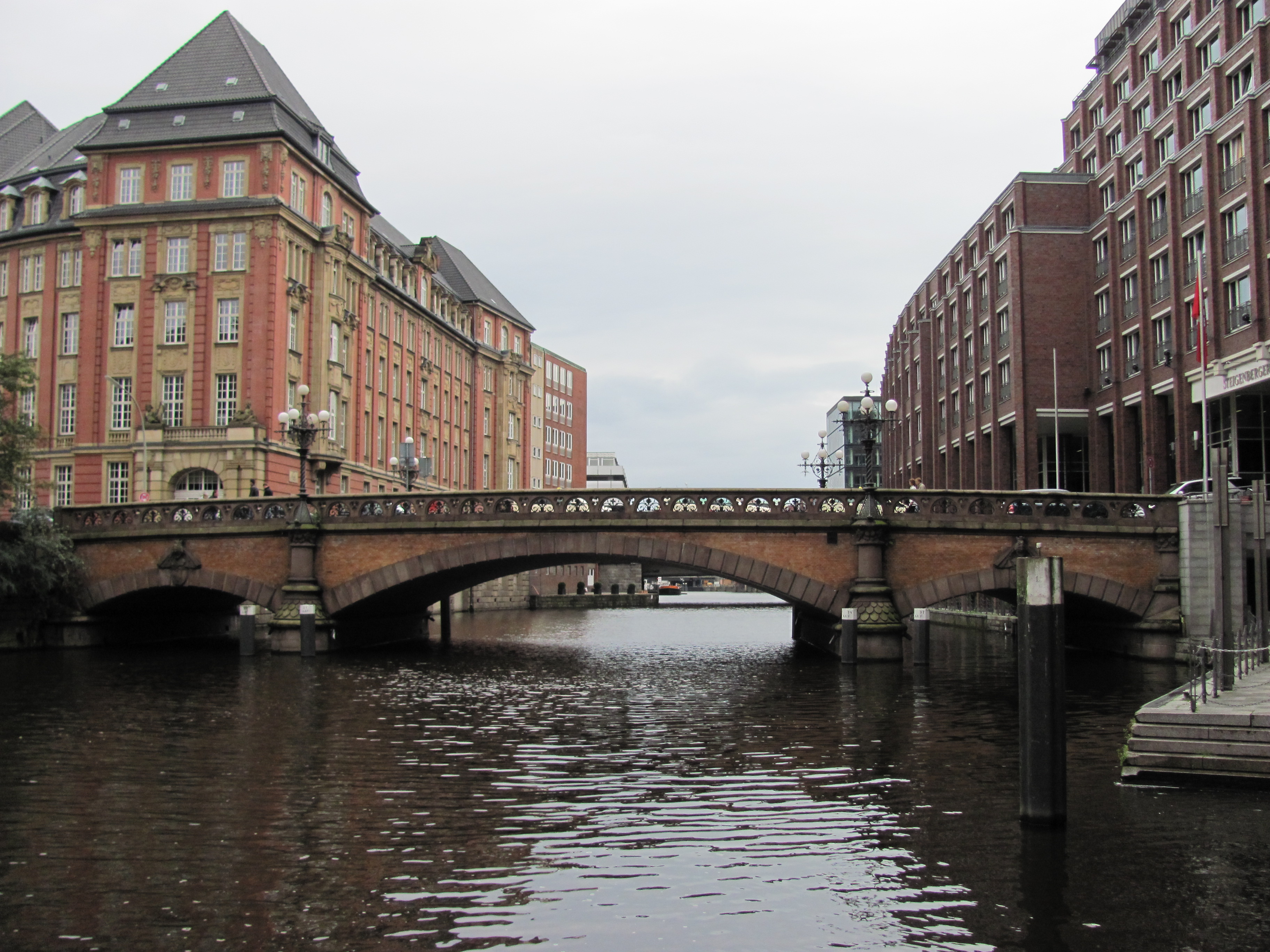 Heiligengeistbrücke in Hamburg, Germany This is a photograph of an architectural monument.